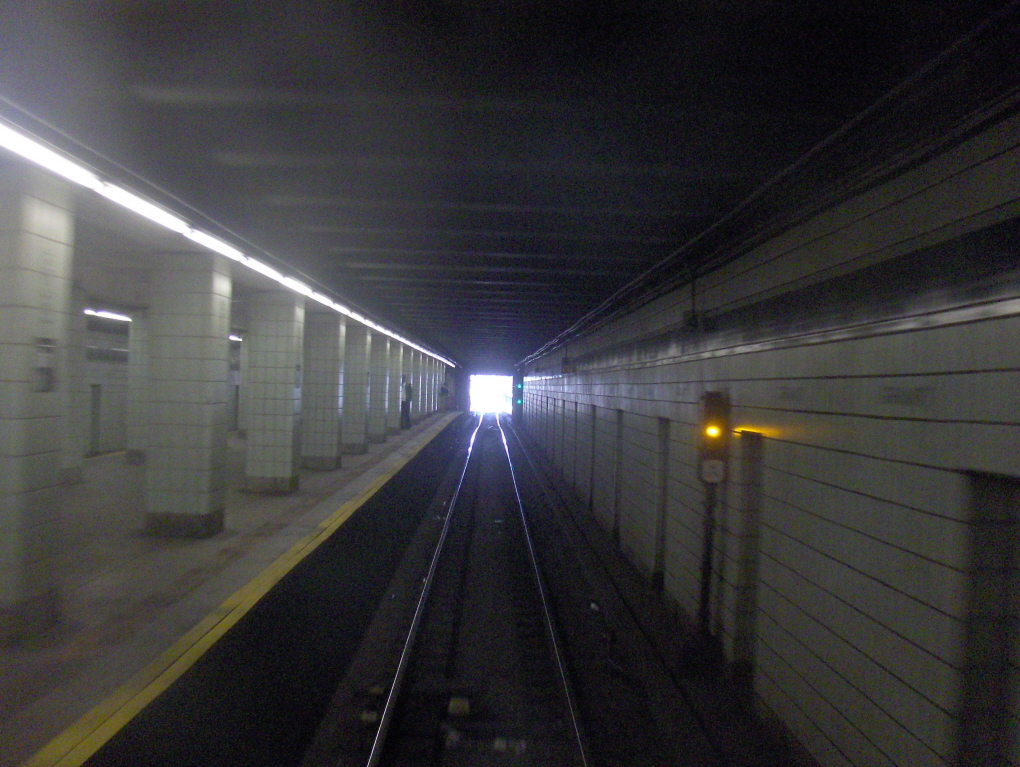 Railfan window view of A train coming into Grant Avenue on the IND Fulton Street Line in the City Line section of Brooklyn, New York City.